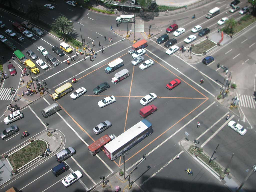 A photo of the intersection of Ayala Avenue and Buendia Avenue in Makati City, taken from somewhere up in Tower 1 of The Columns.